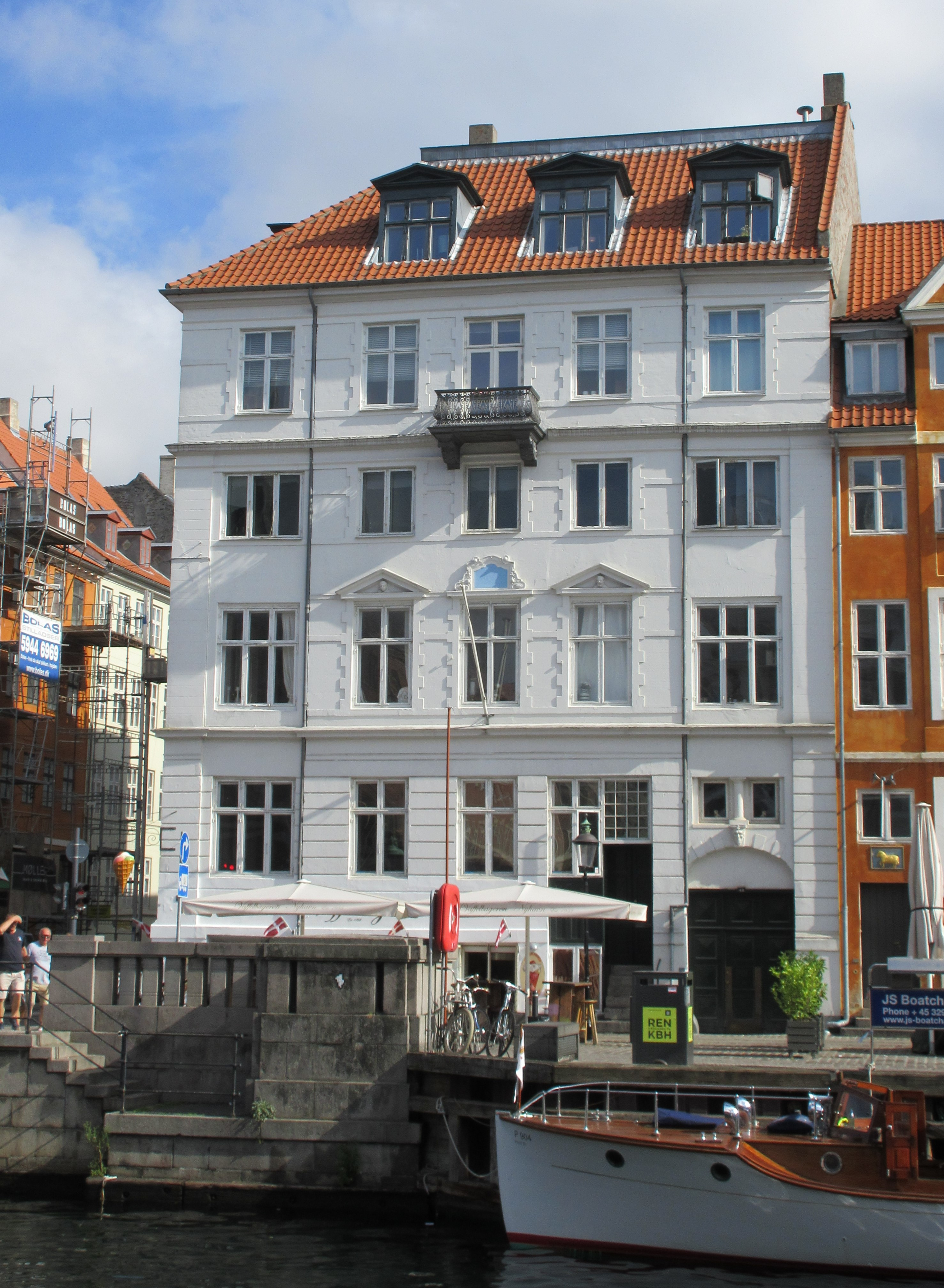 Nyhavn 49 in Copenhagen, Denmark